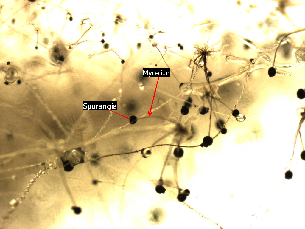 Sporangia Myceliun